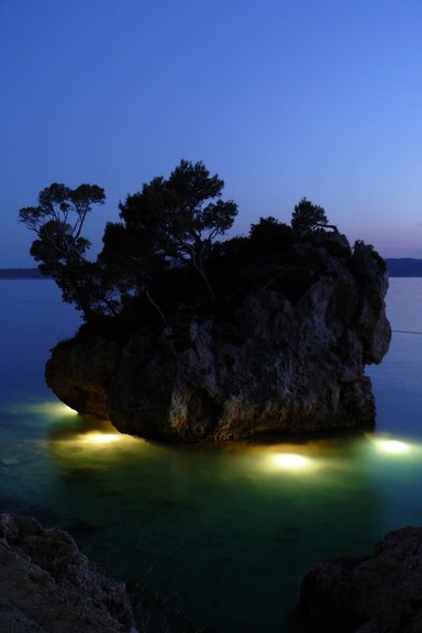 "Kamen Brela", a symbol of Brela.